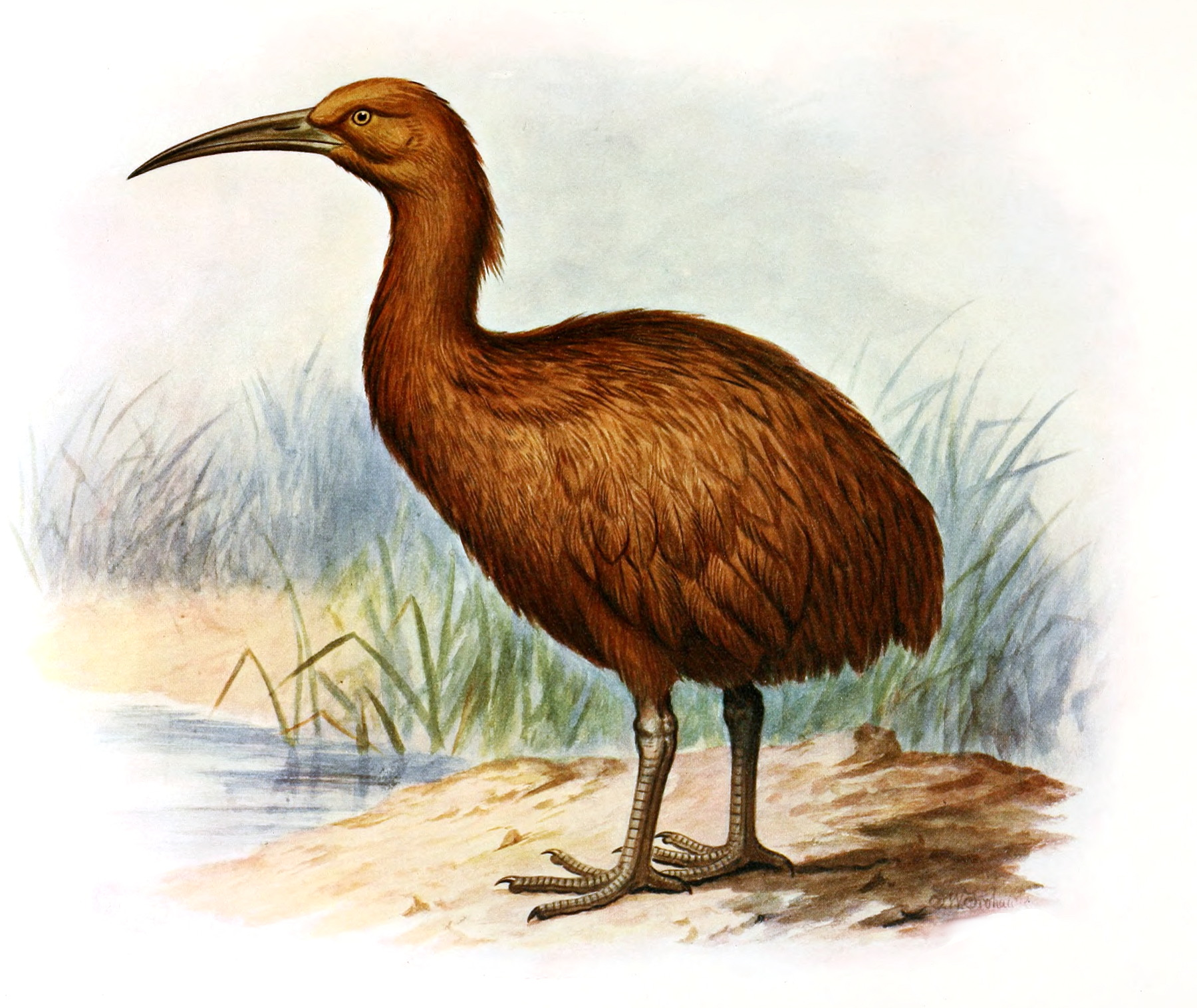 Extinctbirds1907 P29 Aphanapteryx_bonasia_(altered). The Red Rail or Red Hen of Mauritius, Aphanapteryx bonasia, is an extinct rail. It was only found on the island of Mauritius. One-Half Natural Size—from a drawing} (Aphanapteryx bonasia)